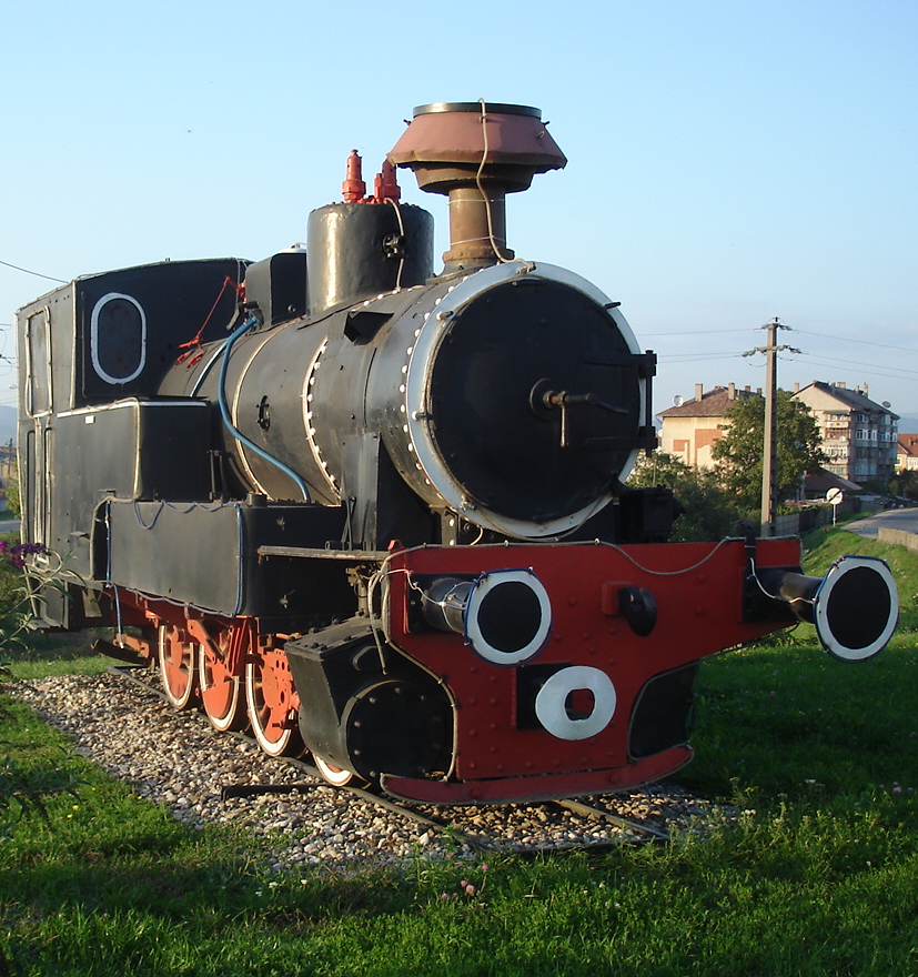 Class 764 narrow-gauge steam locomotive on static display at Orăștie, Romania